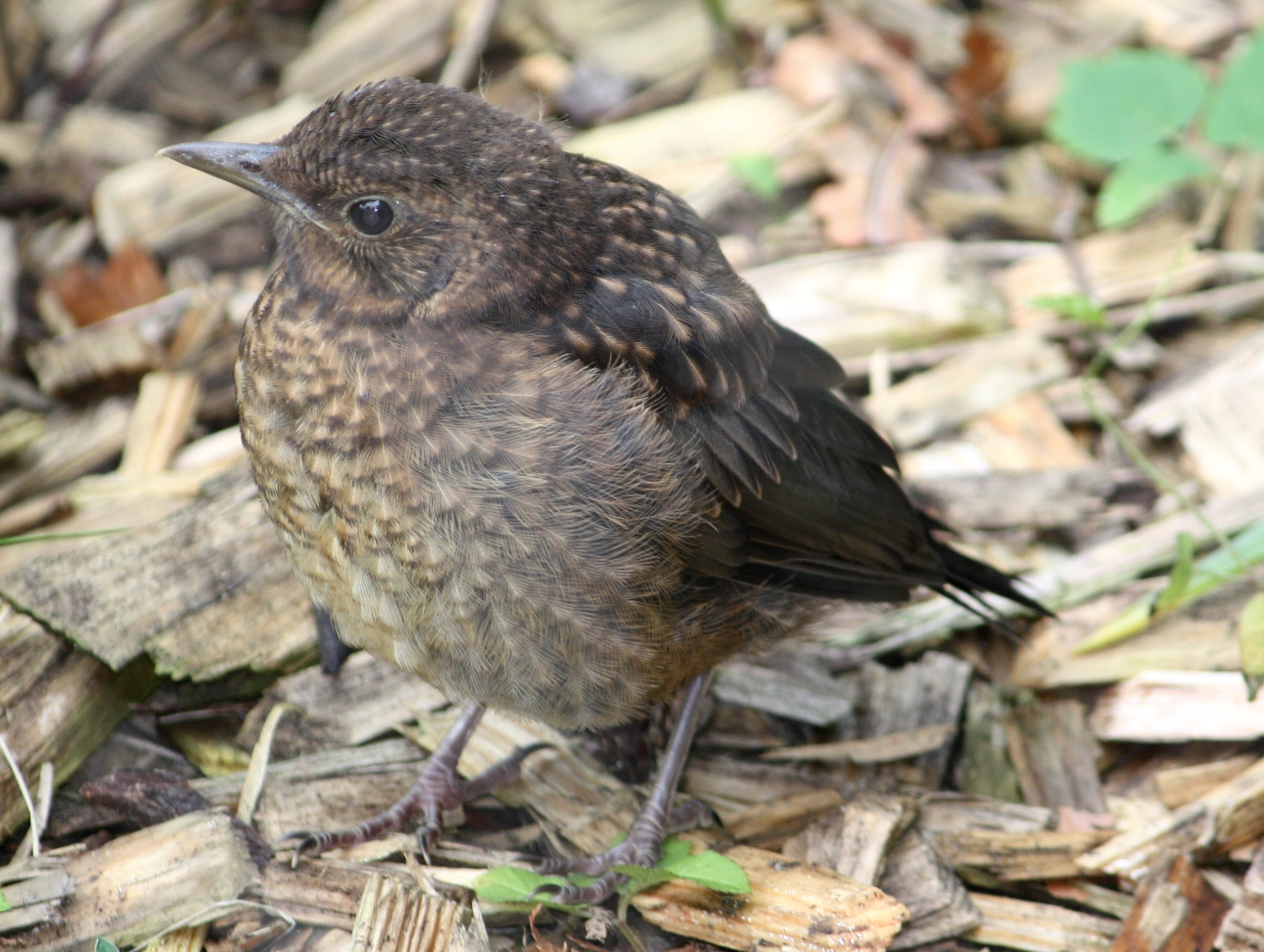 blackbird (Turdus merula) chicks 21 days old